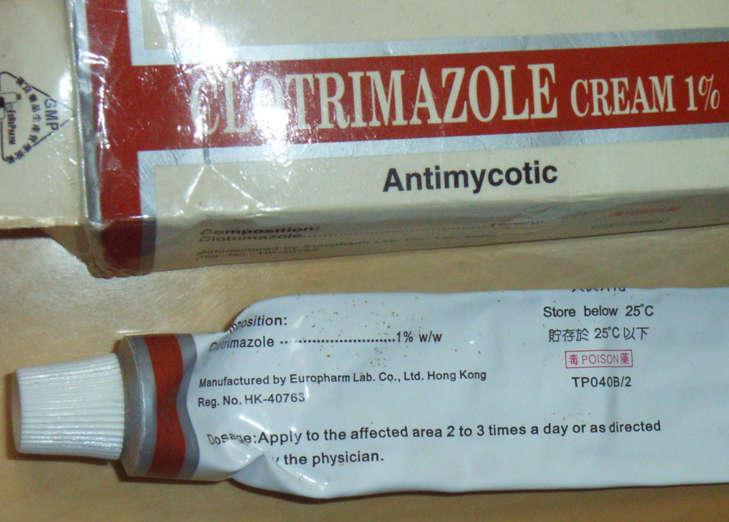 歐化藥業